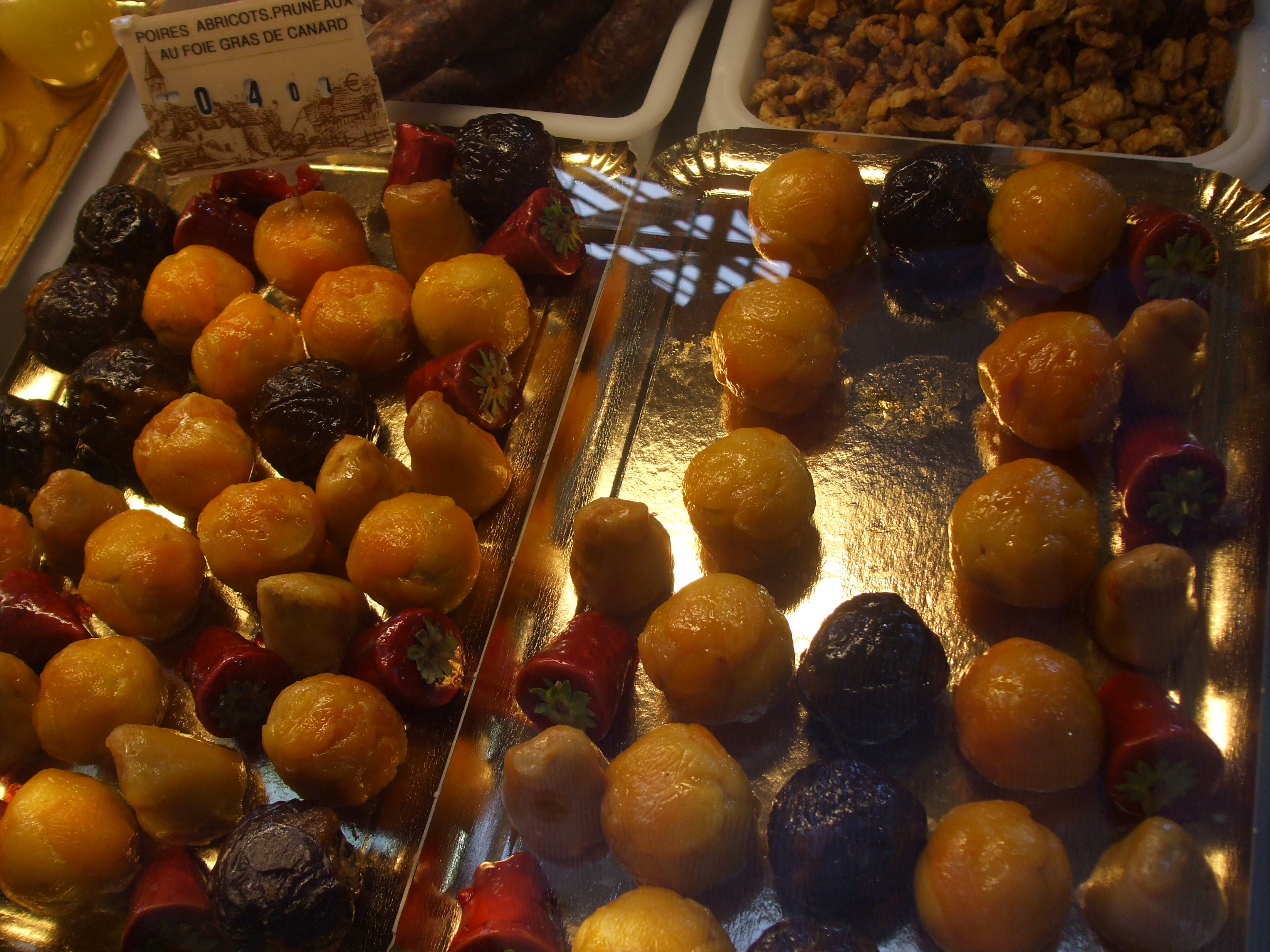 Fruits (fig, prune, strawberry, pear) stuffed with foie gras,Market of Brive-la-Gaillarde,France Market of Brive-la-Gaillarde,France